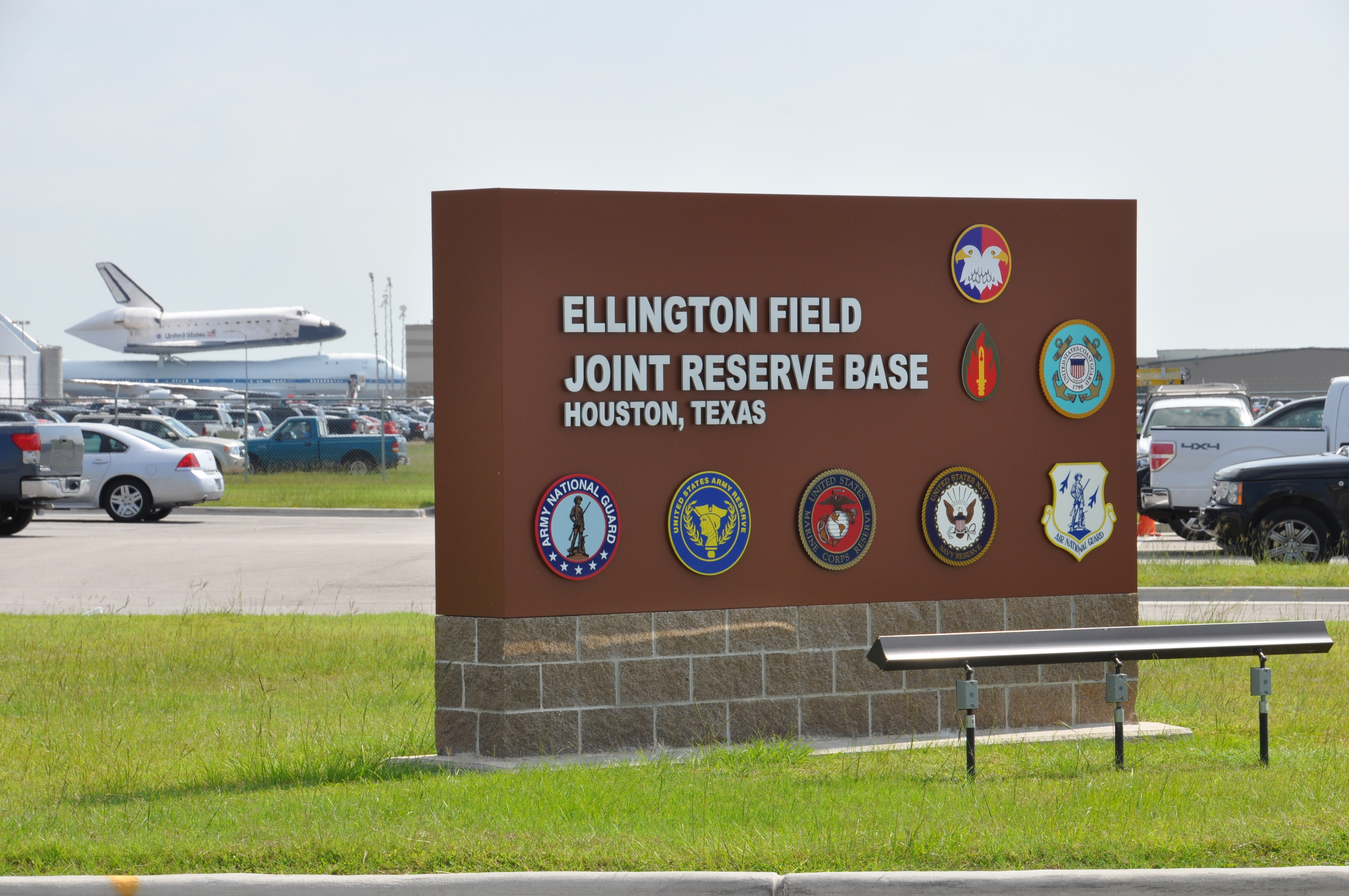 The Space Shuttle Endeavour arrives at Ellington International Airport in Houston, Sept. 19, 2012. The retired spacecraft, carried by a modified Boeing 747, made a brief stop at the city's Ellington International Airport before being flown to Los Angeles. The airport is adjacent to Ellington Field Joint Reserve Base, and on hand were troops from many of the units stationed there, including the Soldiers from 75th Training Command to watch the orbiter's arrival.